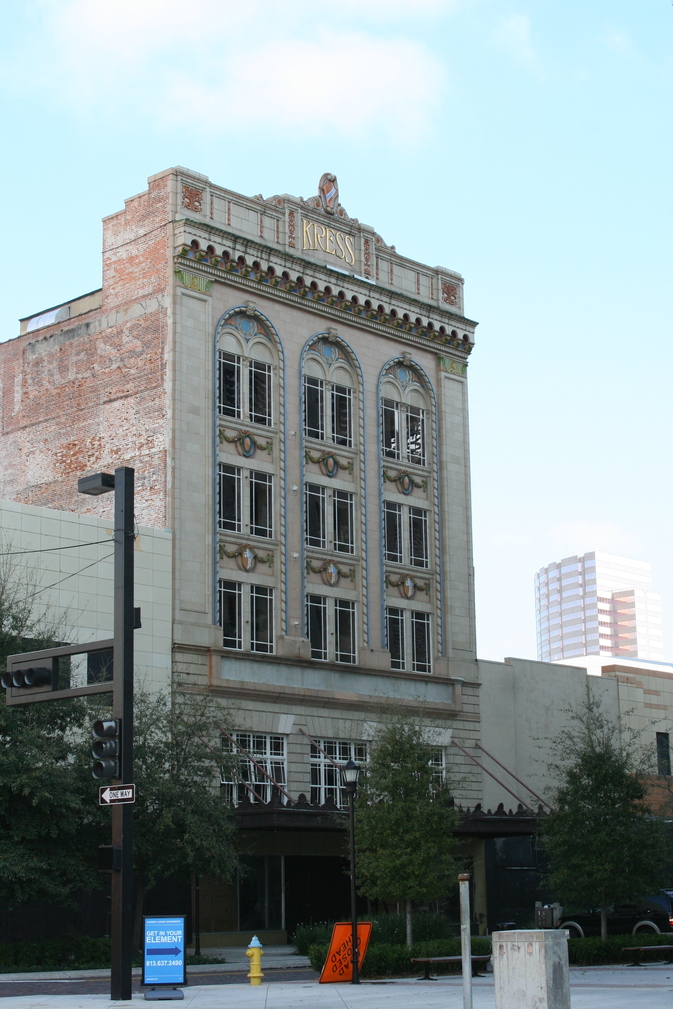 Tampa's Kress building 2012